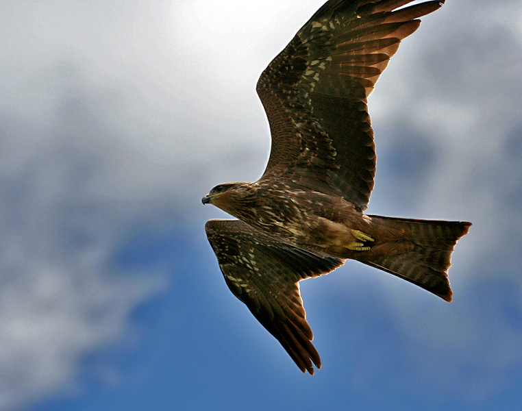 Black Kite Milvus migrans in Hyderabad , India.